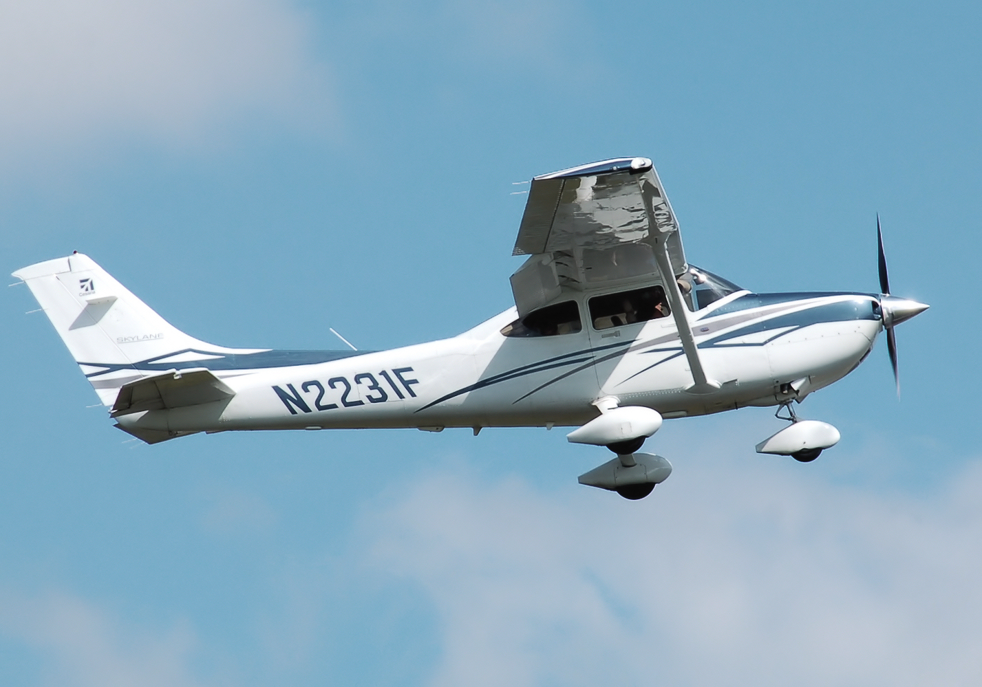 Cessna 182T Skylane (N2231F) takes off at the Cotswold Air Show at Cotswold Airport, Kemble, Gloucestershire, England.